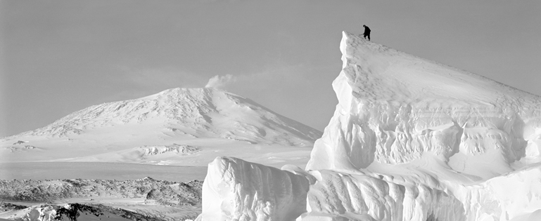 panarama